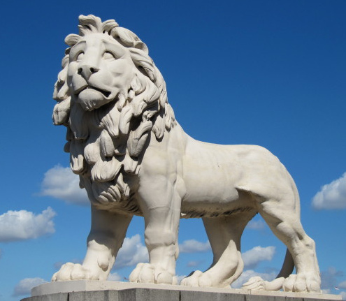 South Bank Lion Originally a logo for a brewery, this lion stood outside a pub that was flattened in the Blitz before moving here to the south side of Westminster Bridge, at the request of the King. Made from a secret process called Coade stone, it is a casting rather than a carving. Kensington Gardens SW7 Tube: South Kensington